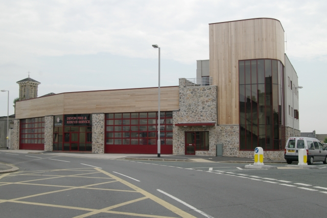 Greenbank fire station - The newly opened Greenbank fire station, Longfield Place, Greenbank, Plymouth is station 50 of the Devon Fire & Rescue Service. It replaces a large granite multi-bay fire station on the same site, which was demolished. The crews and appliances were housed in a temporary station on Sutton Road during construction works.